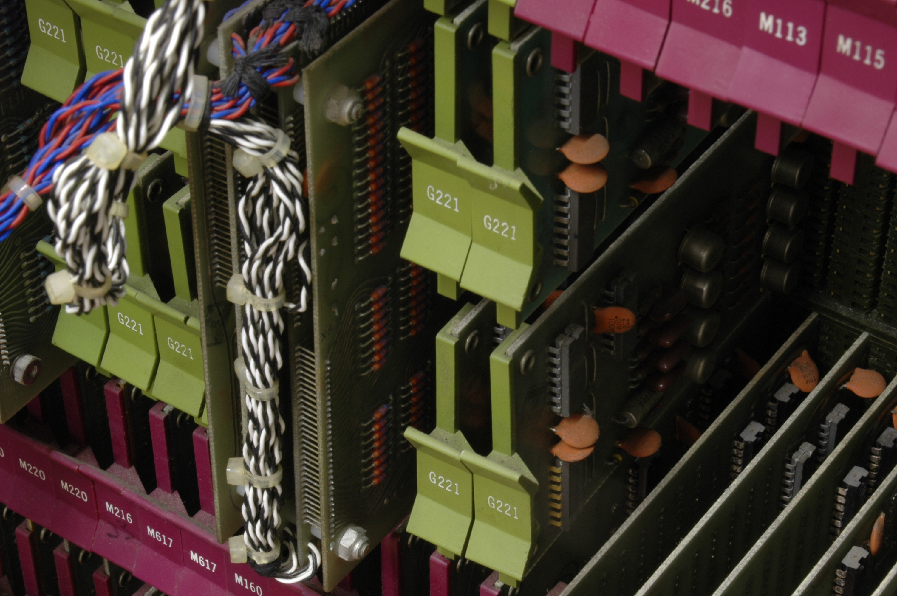 Core stack from a PDP-8I minicomputer. From the collection of the RCS/RI.